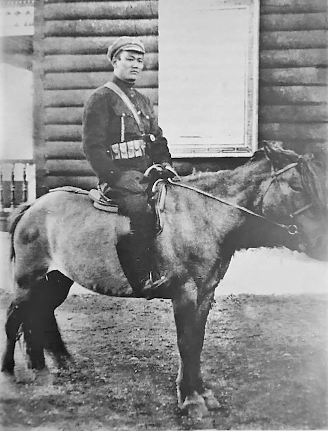 Sukh, ca 1920-1922